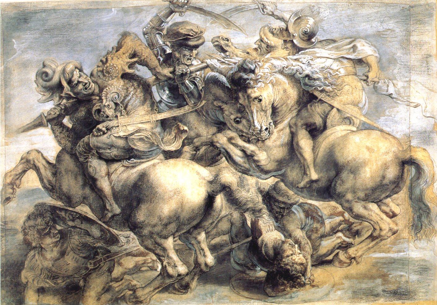 Copy after a fresco by Leonardo da Vinci depicting the Battle of Anghiari in the Palazzo della Signoria in Florence, executed in 1504-1505 and destroyed around 1560.